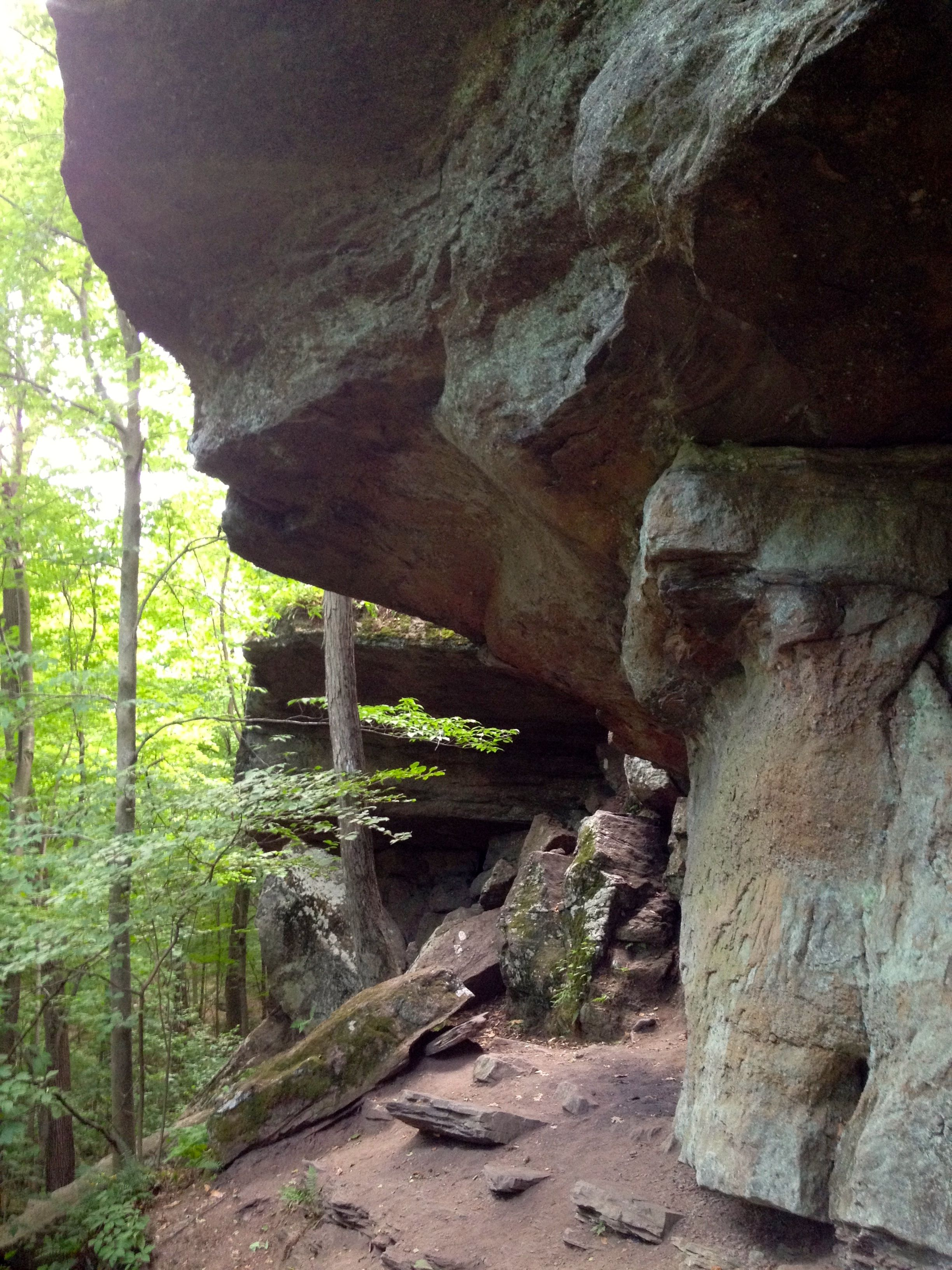 The Horse Caves, on the eastern slope of Mount Norwottuck, in Granby, Massachusetts